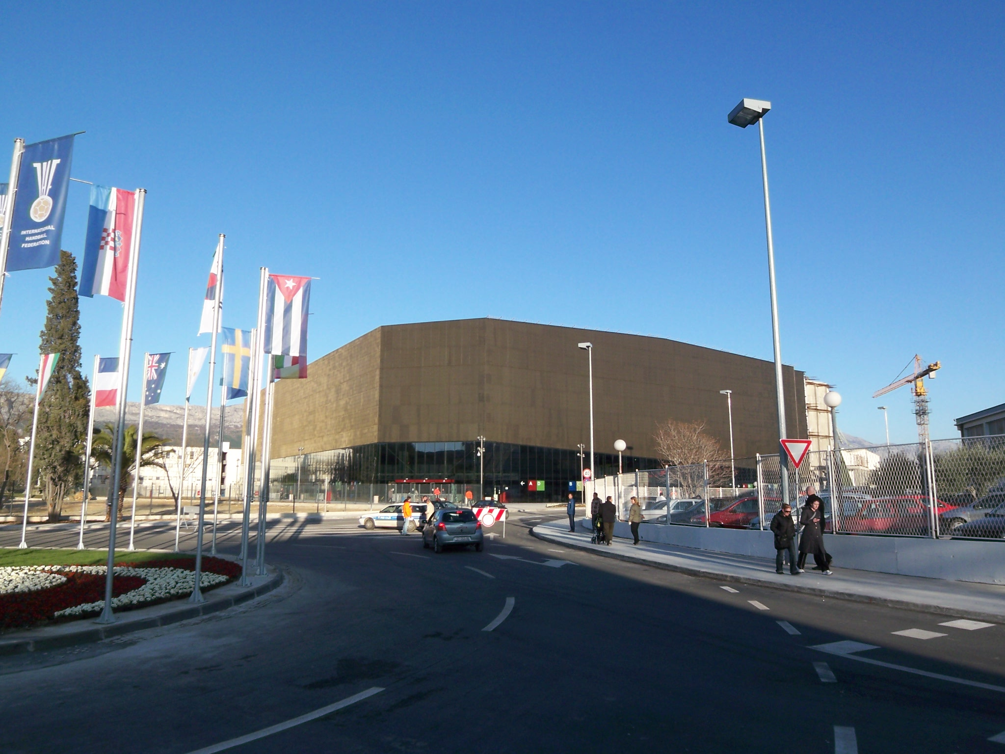 Spaladium Centre, sports and business complex is located on the northern part of the Split peninsula, in the vicinity of Poljud, a sports complex with a football field and pool built for The Mediterranean Games in 1979. Spaladium Centar consists of a handball arena for 12,000 spectators, a wellness centre, a sky bar and an exclusive restaurant on the top floor overlooking the entire city, its surroundings and the islands of the Split archipelago. There are 1,500 garage parking places. The shopping centre guarantees visits even when the handball arena is not in use. The arena itself is a multi-purpose hall. In addition to handball, the arena will be used for basketball, tennis, volleyball, boxing, motocross, and will also be a venue for trade fairs, conventions, exhibitions and concerts.